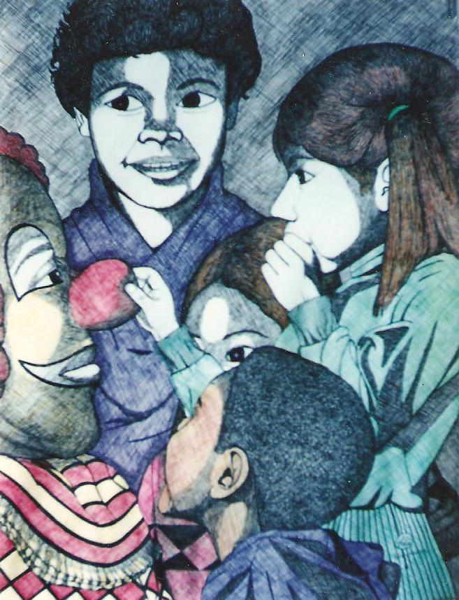 Artist: Larry D. Alexander Source: Larry D. Alexander's Home Files Title: "Send in the Clown" Medium: Pen and Ink Drawing 18"x24"